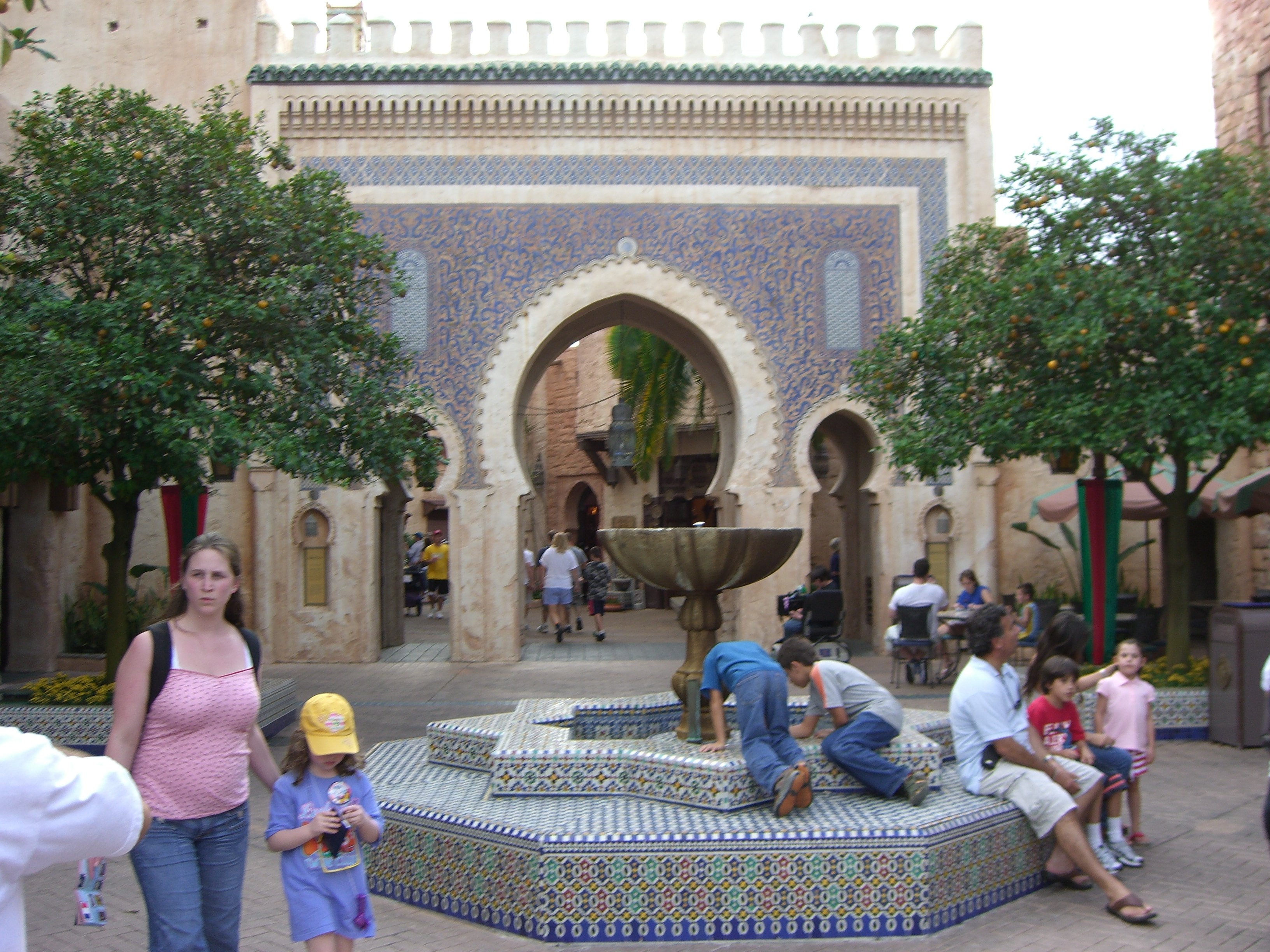 Entrance to the Morocco pavillion at Epcot.